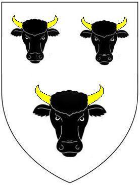 Arms of Walrond of Bradfield, Devon: Argent, three bull's heads cabossed sable armed or; Crest: A heraldic tiger sable pellete (Burke's Landed Gentry, 1937, p.2353)